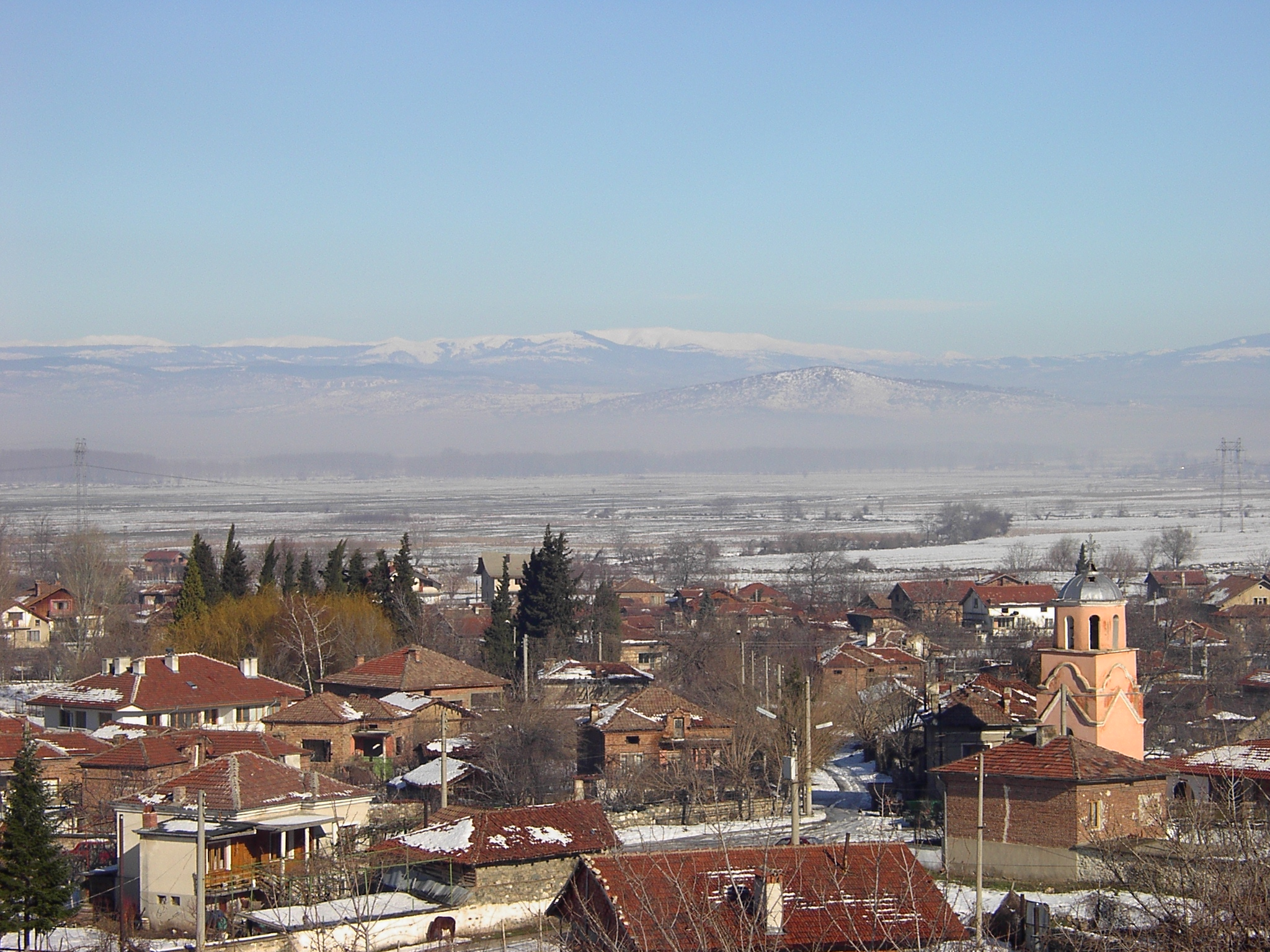 Panorama view of village Vetren dol, Bulgaria